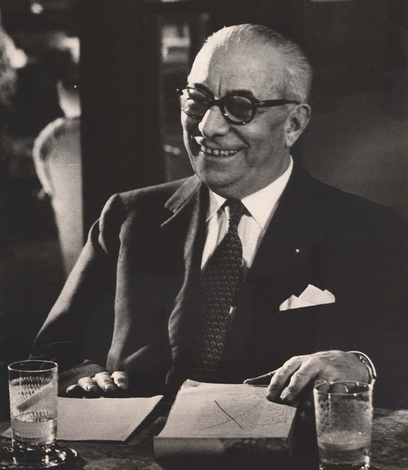 Italian publisher Arnoldo Mondadori